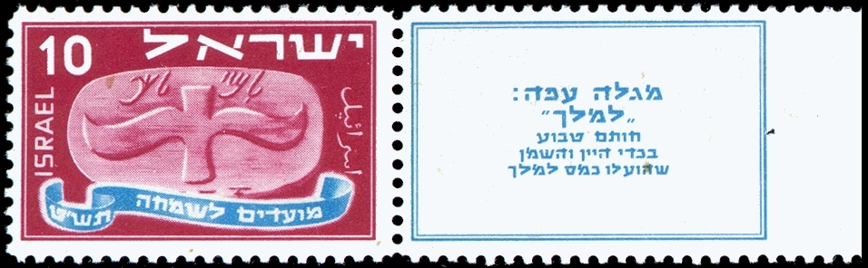 Joyous Festivals 5709 stamp - 10 mil. Inscription on tab: "Flying Scroll - To the King - seal stamped on the wine and oil jugs given as tax to the king".